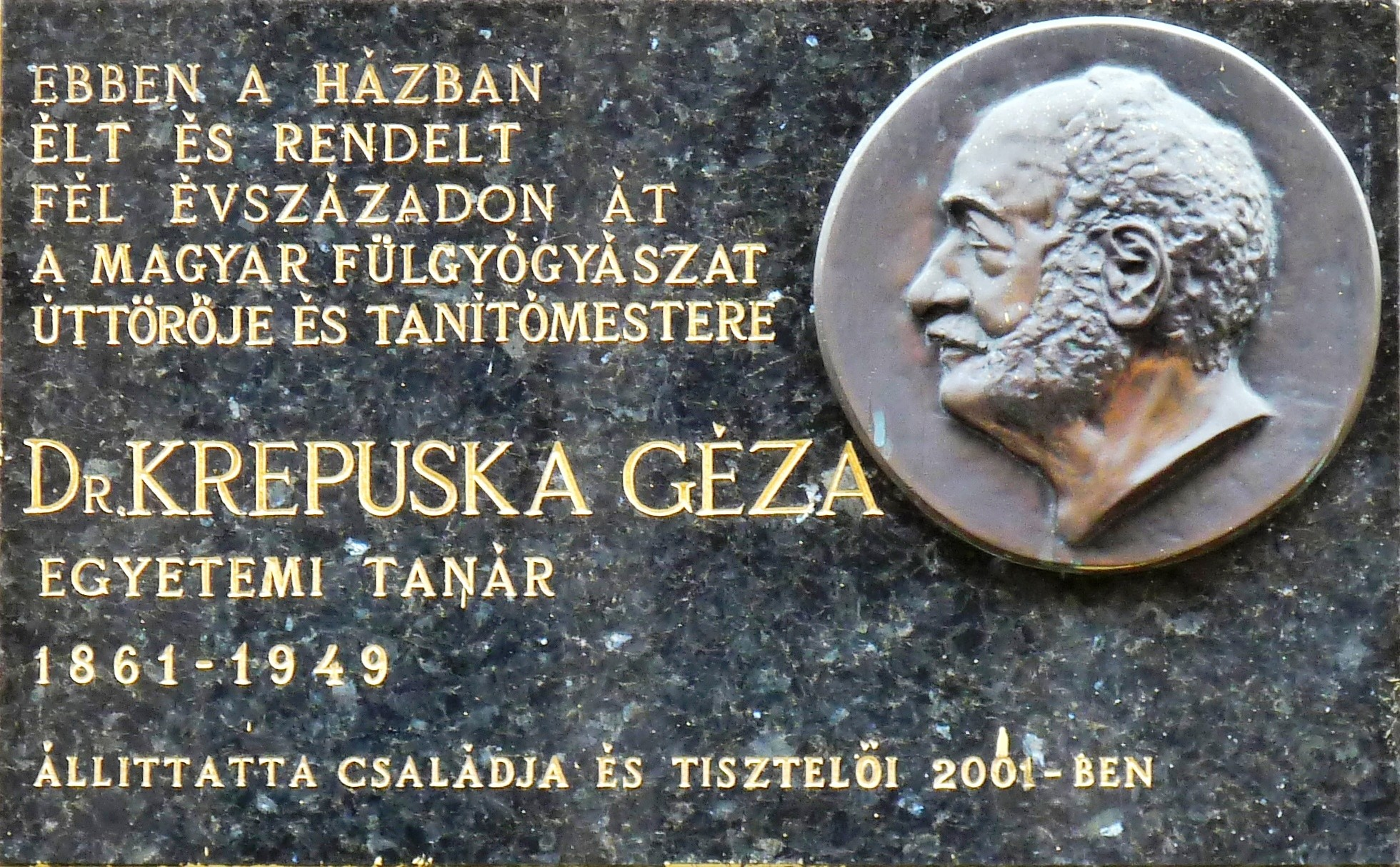 Commemorative plaque to Mr. Géza Krepuska (1861–1949) Hungarian university professor, ear-specialist. It is placed on the wall of his former domicile. (Budapest, District VIII, Reviczky Street Nr 4/b).